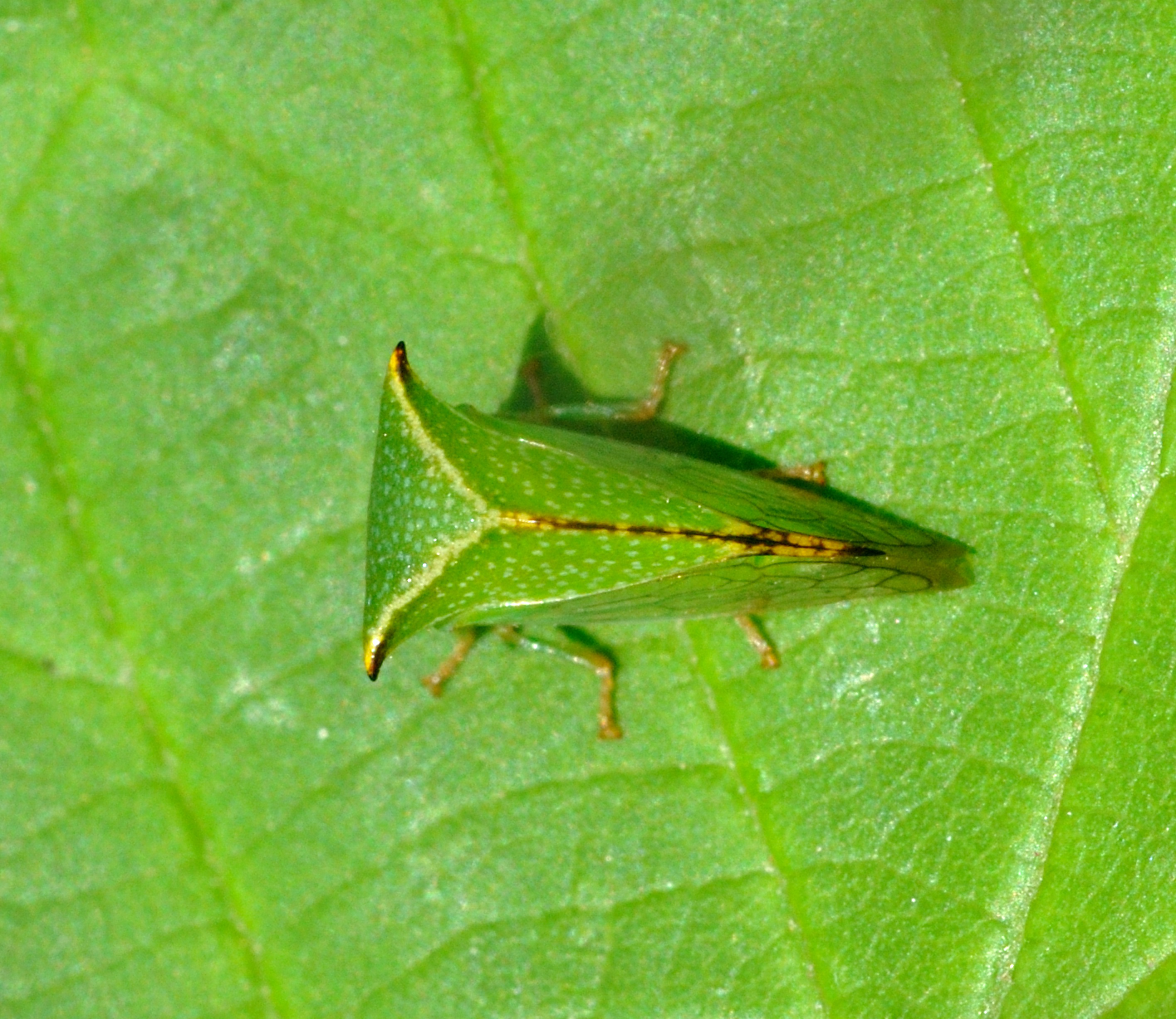 Buffalo Treehopper (Stictocephala bisonia) near the old airstrip, Frankfurt, Germany